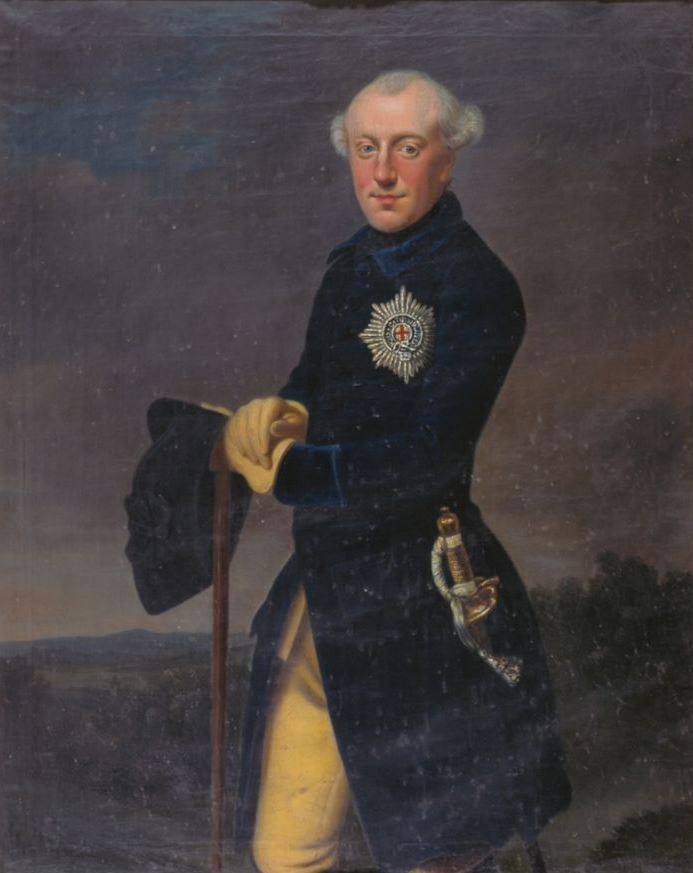 Portrait of Charles William Ferdinand, Duke of Brunswick-Wolfenbüttel (1735-1806)